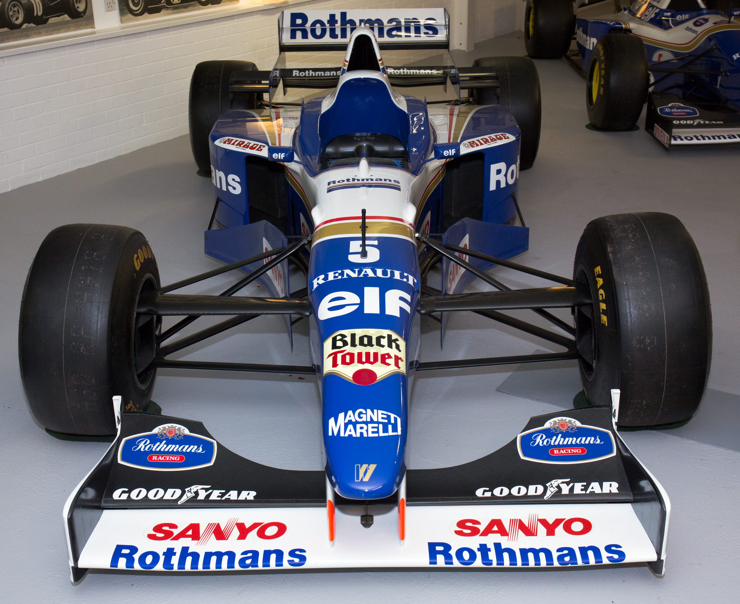 1996 Williams FW18 (#5 Damon Hill)